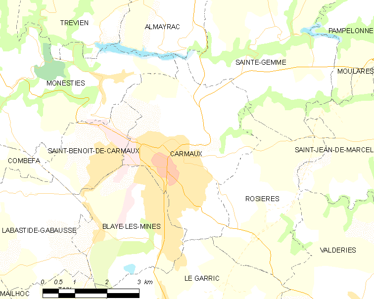 Map of French municipality Carmaux